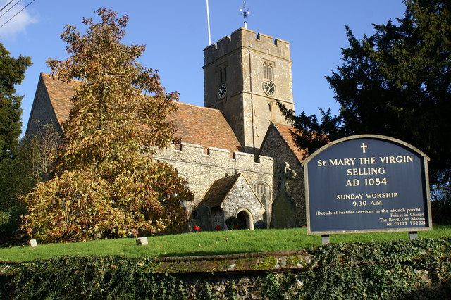 St Mary the Virgin, Selling The church at Selling dates back to 1054AD.